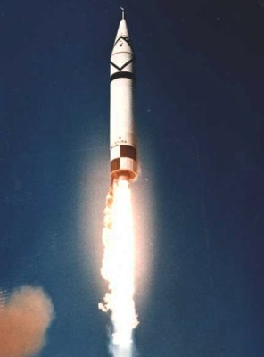 A PGM-19A Jupiter missile just after launch.